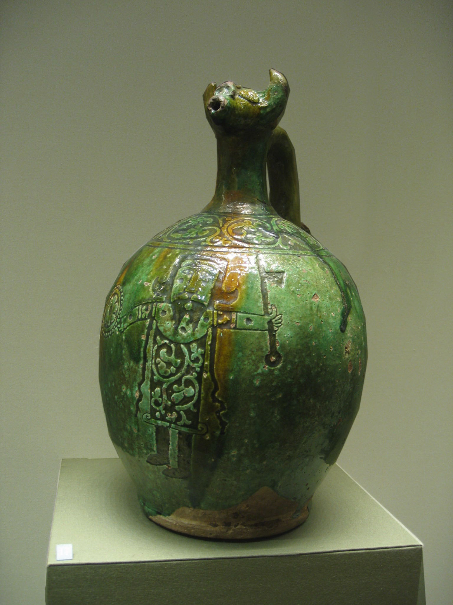 Ewer with animal-shaped spout. Found in Iran, Zendjan region, Garrus district.